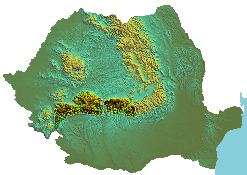 The correct map, Without Banat Mt.